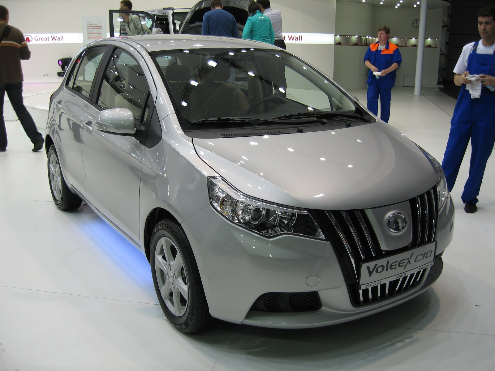 GreatWall Voleex C10 at 2010 Moscow International Autoshow